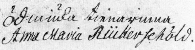 The signature of Anna Maria Rückerschöld in a letter to CC Gjörwell (Carl Christoffer Gjörwell), dated February 28, 1770 in Sätra.